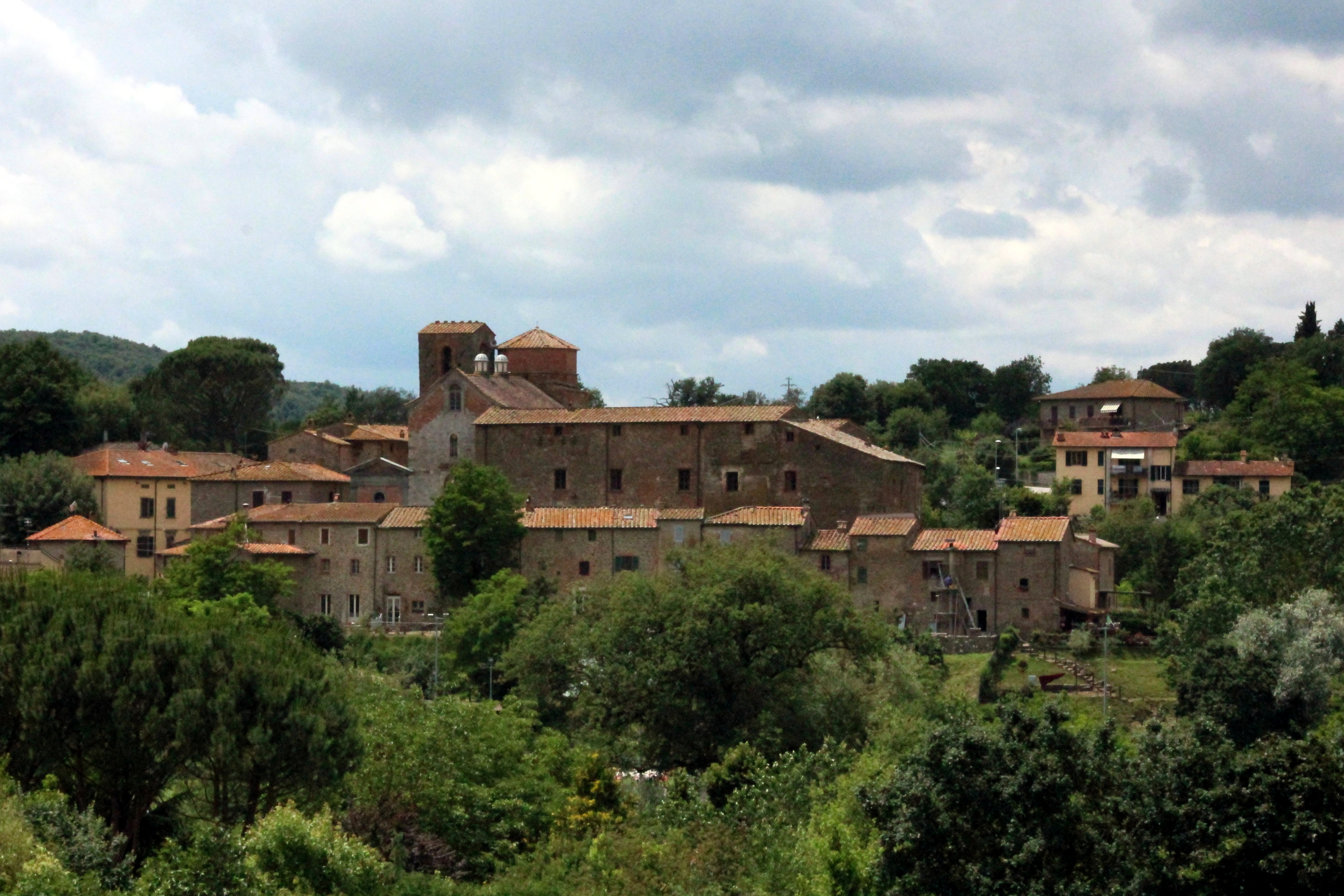 Panorama of Badia a Ruoti, hamlet of Bucine, Province of Arezzo, Tuscany, Italy